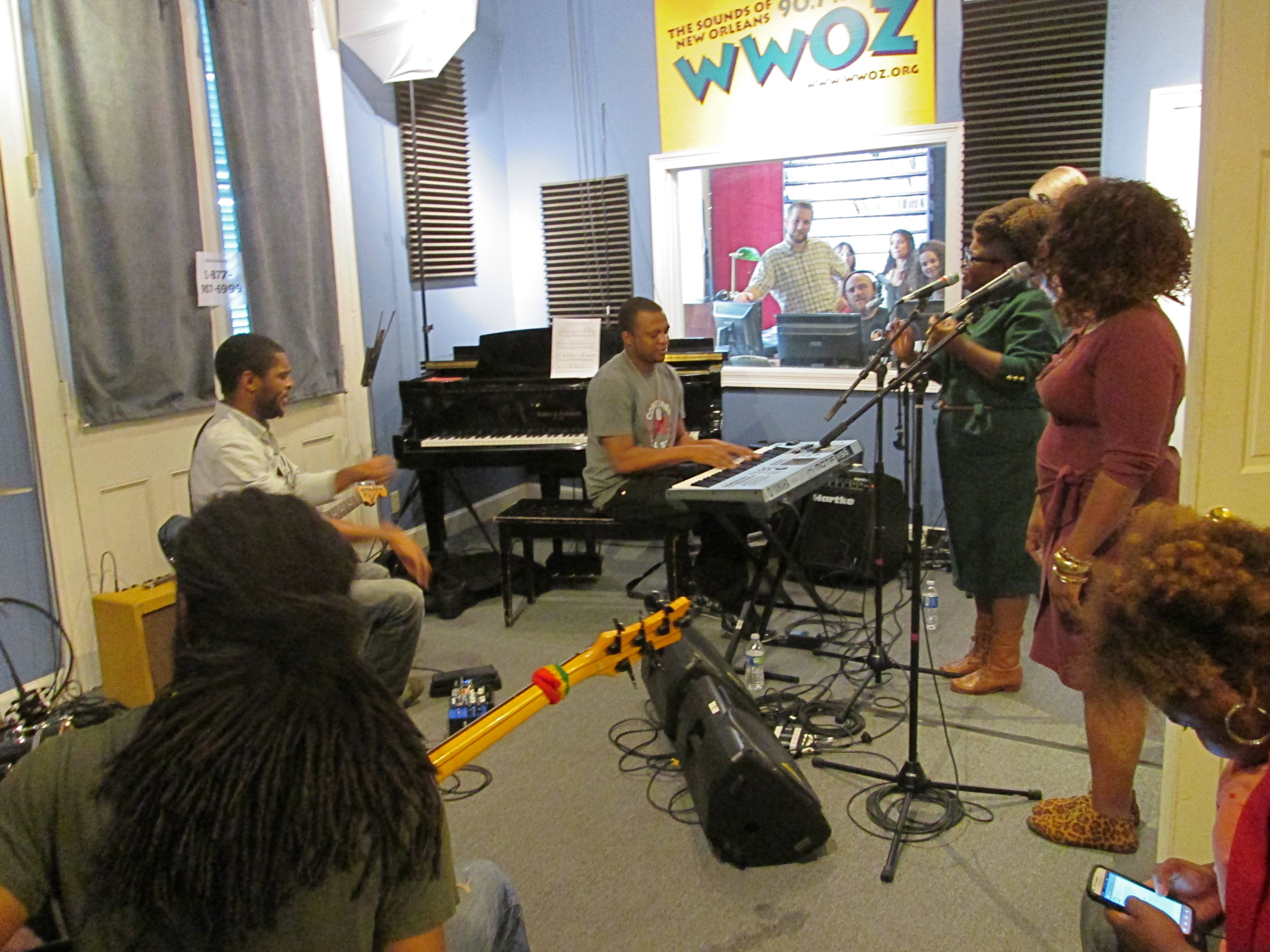 WWOZ studios in the French Quarter of New Orleans during the fall funddrive. Band "Tank and the Bangas" perform live.